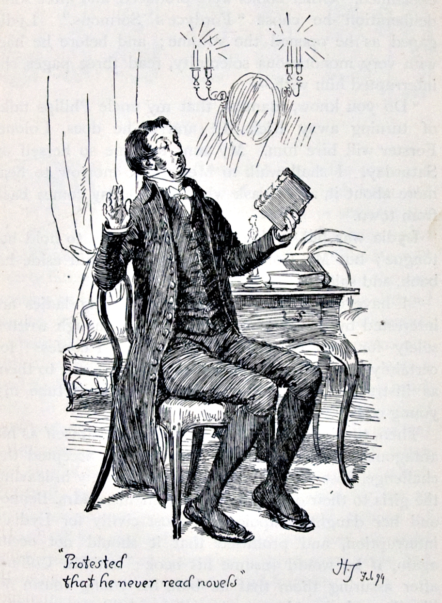 "Protested that he never read novels" - Mr. Collins claims that he never reads novels. Austen, Jane. Pride and Prejudice. London: George Allen, 1894, page 87.